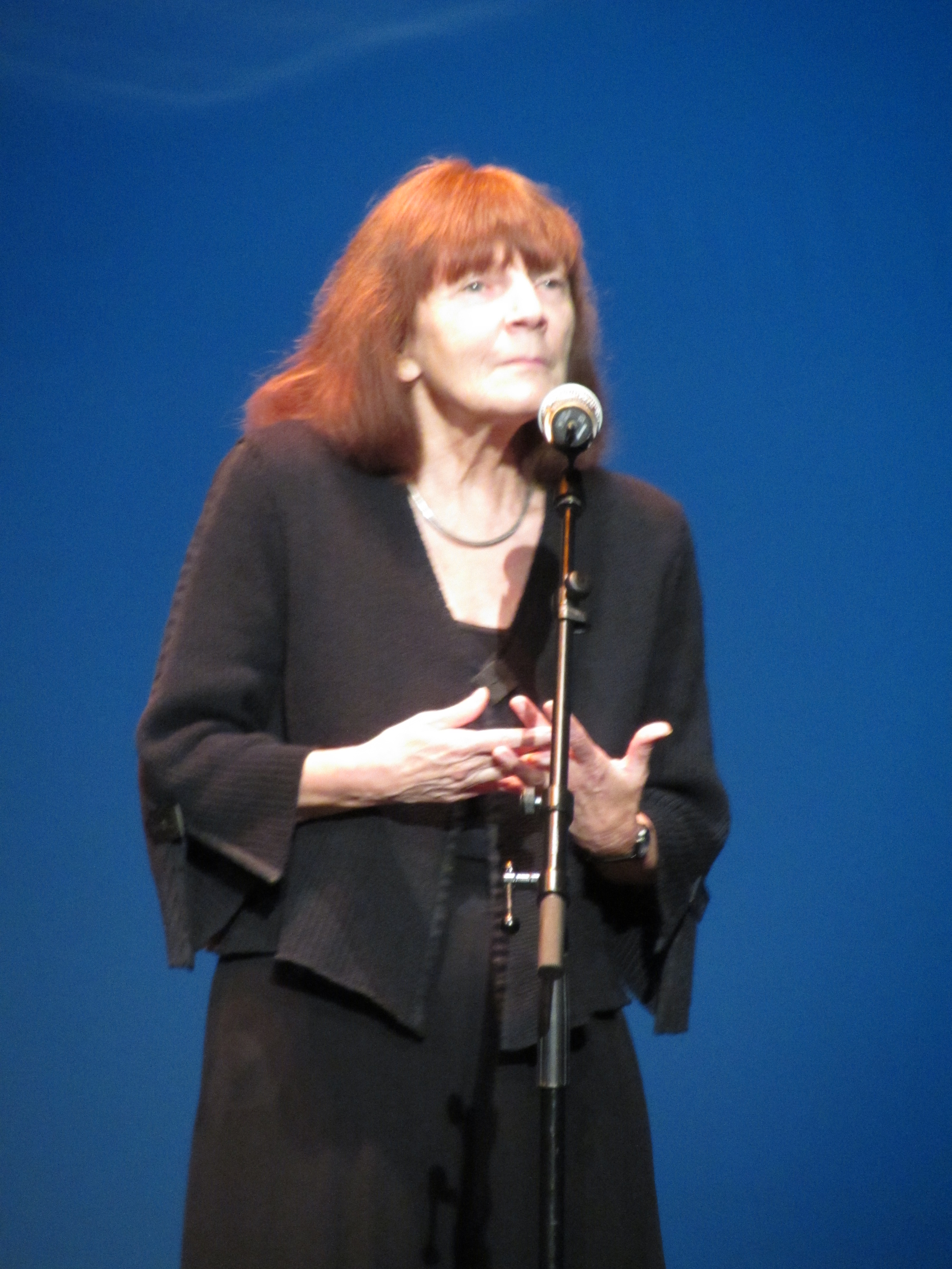 Sonja Kehler sings songs composed by Hanns Eisler in the "Long Hanns-Eisler Night" on September 8, 2012 in Berlin (Akademie der Künste - Hansaviertel), organised in the framework of the "Hanns-Eisler-Tage 2012" on occasion of Eisler's 50th deathday on September 6, 2012